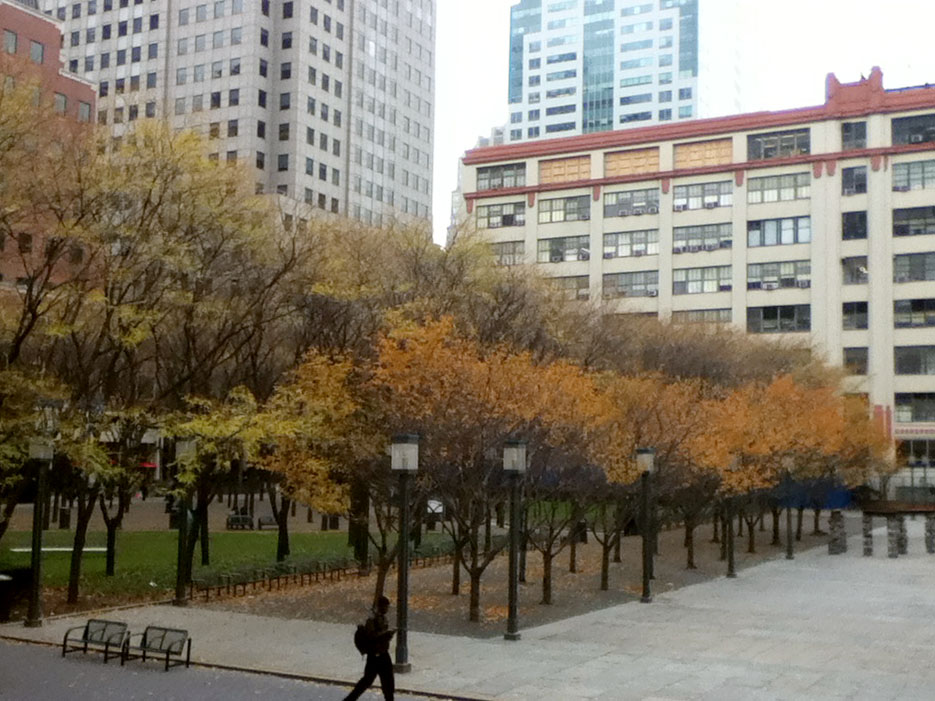 Roger's Hall of NYU Polytechnic School of Engineering, matches with urban architecture of Brooklyn